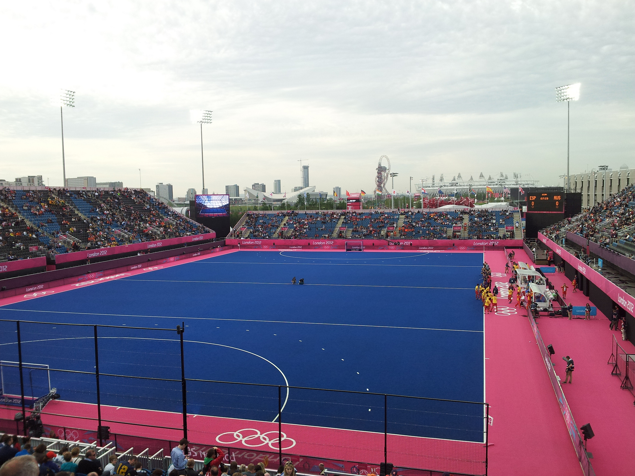 The Riverbank Arena, ahead of AUS v ESP